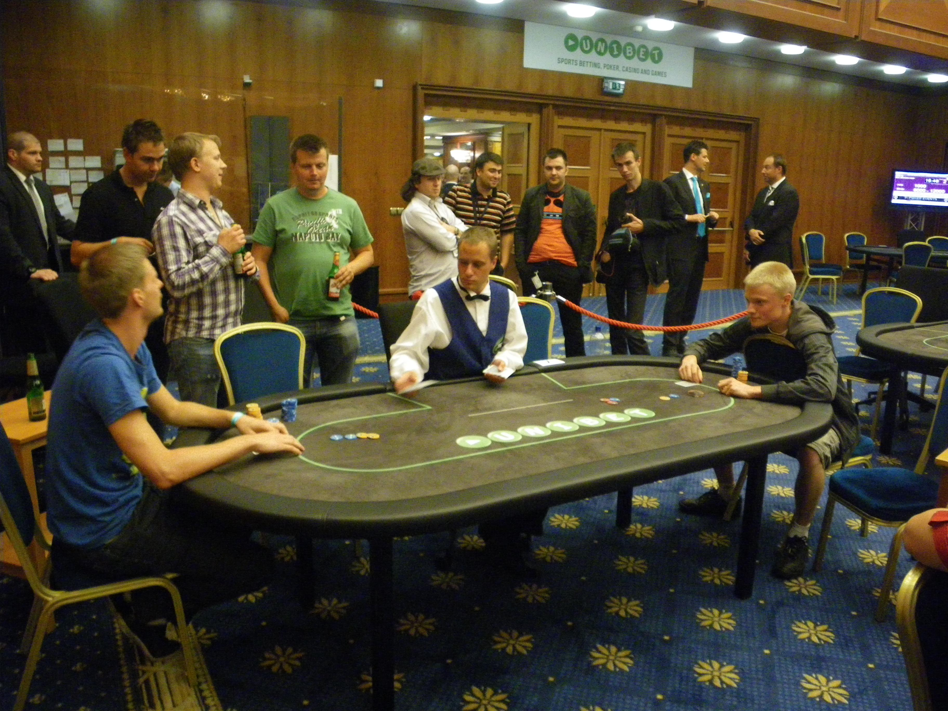 Madis Erit heads-up at unibet open 110€ buy in NLHE rebuy event